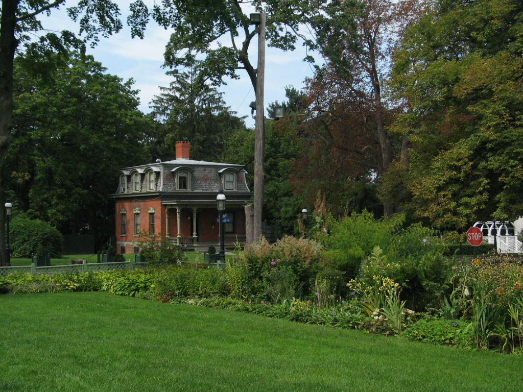 One of the cottages among the cottage row of the Snug Harbor